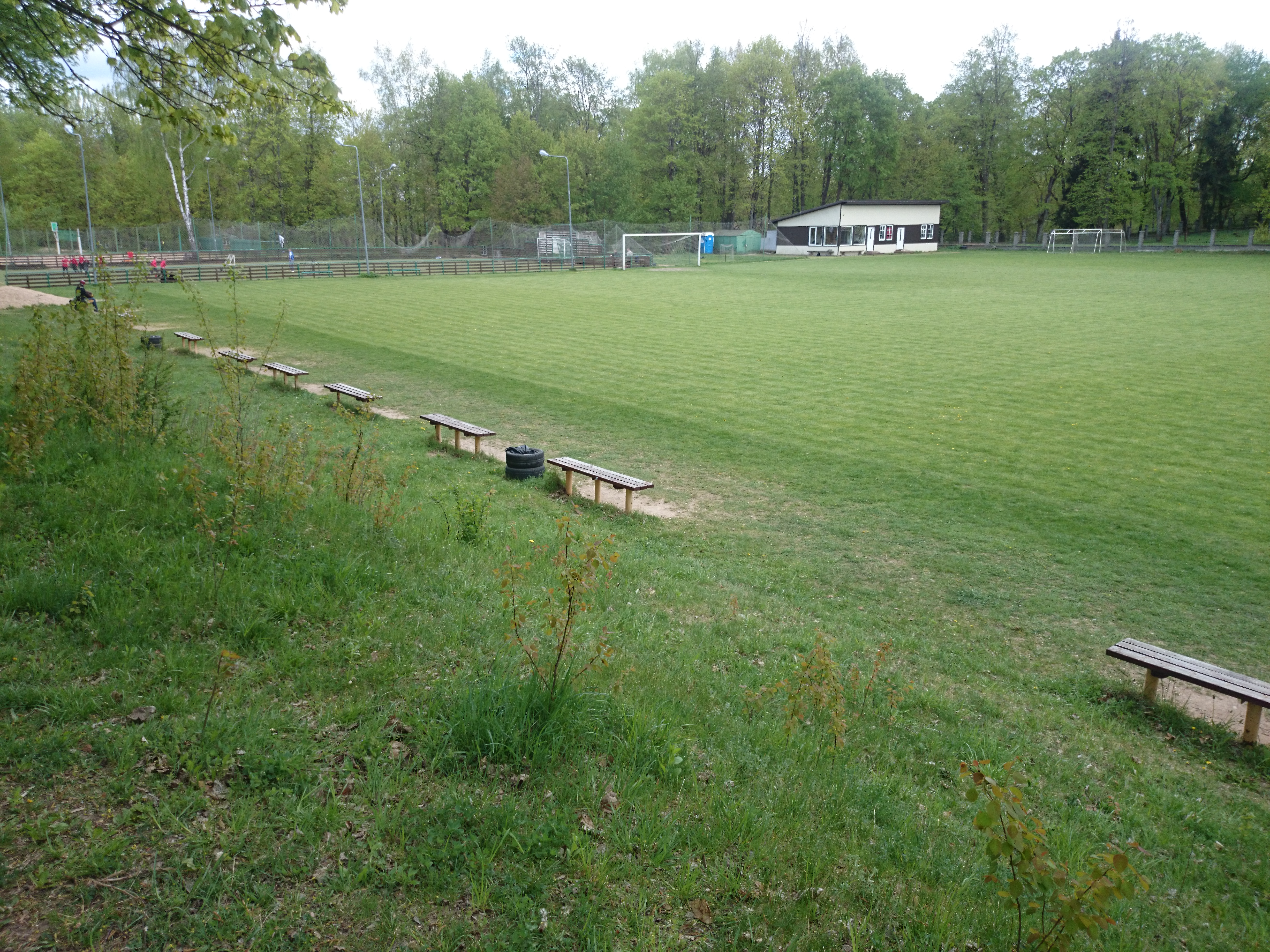 Naujoji Vilnia Stadium